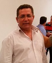 Ofer Eini